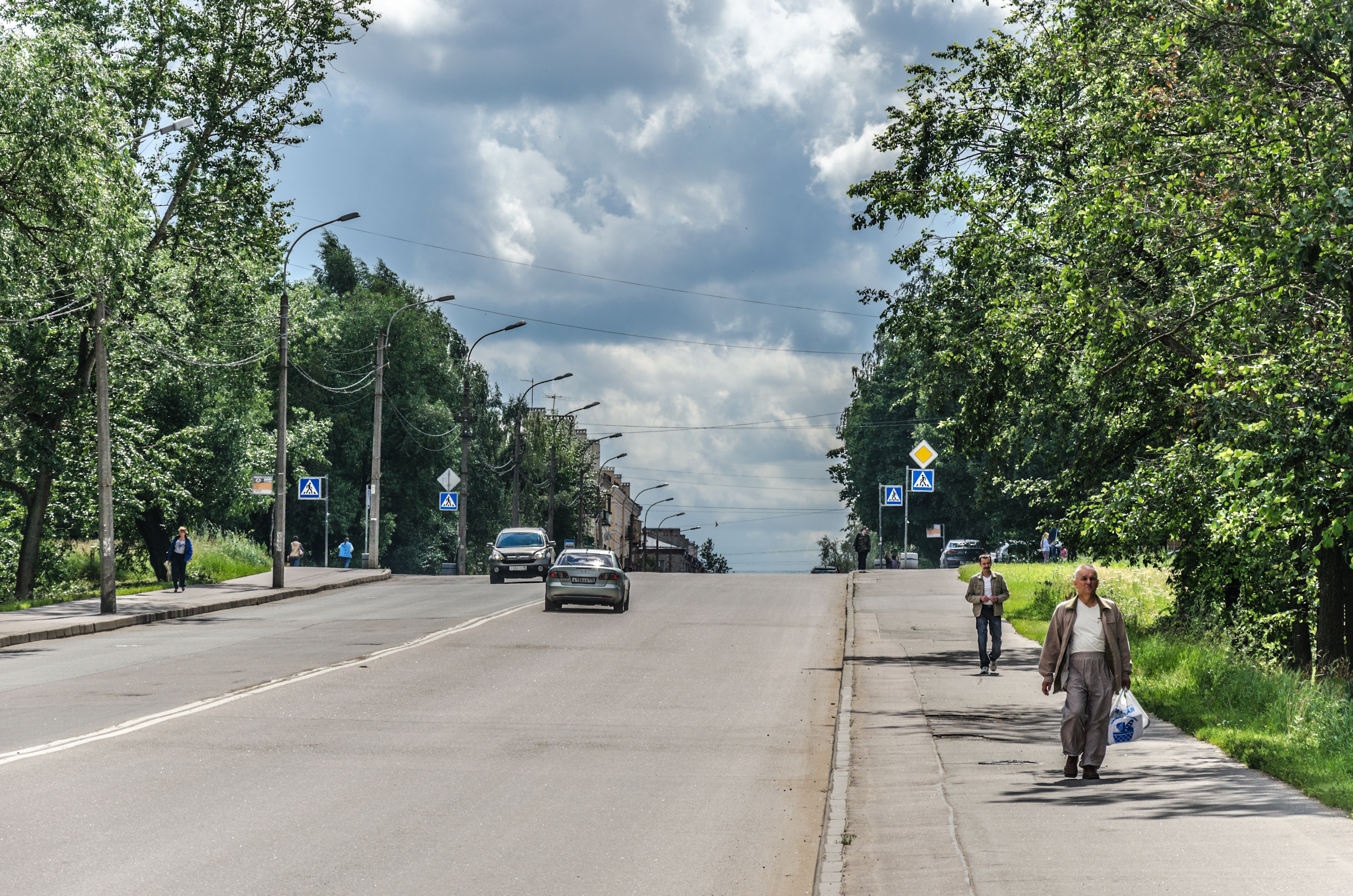 Pogranichnika Garkavogo street in Saint Petersburg, Russia